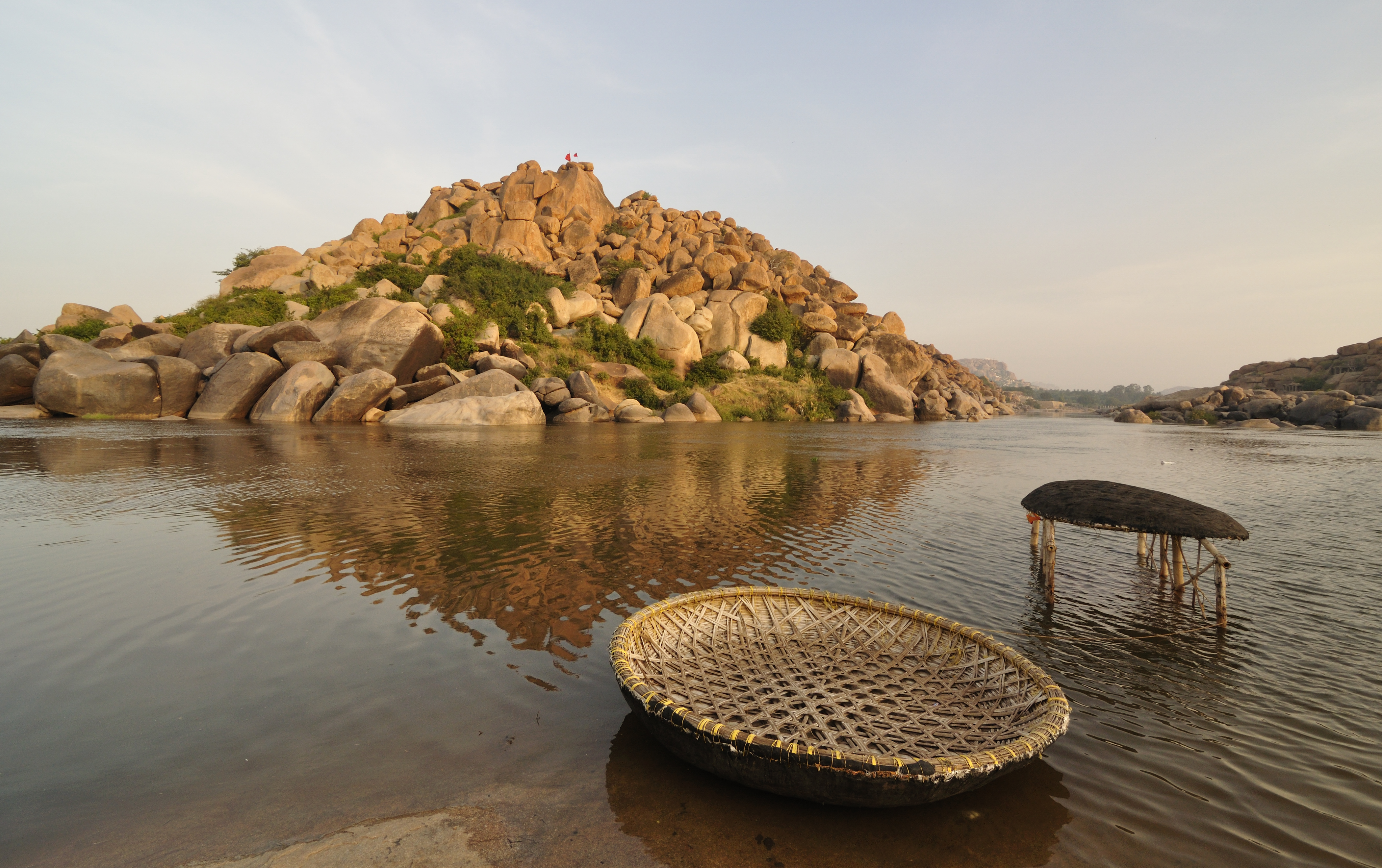 Couple of coracles (round-shaped boats) at Tungabhadra river near Hampi, India. Coracles are used as mode of water transportation in this part of the world. Note: This photograph uses Adobe RGB color space. It is recommended that the photograph be viewed in a browser/image viewer that supports non-sRGB color space. Safari and Firefox include non-sRGB color space support by default.